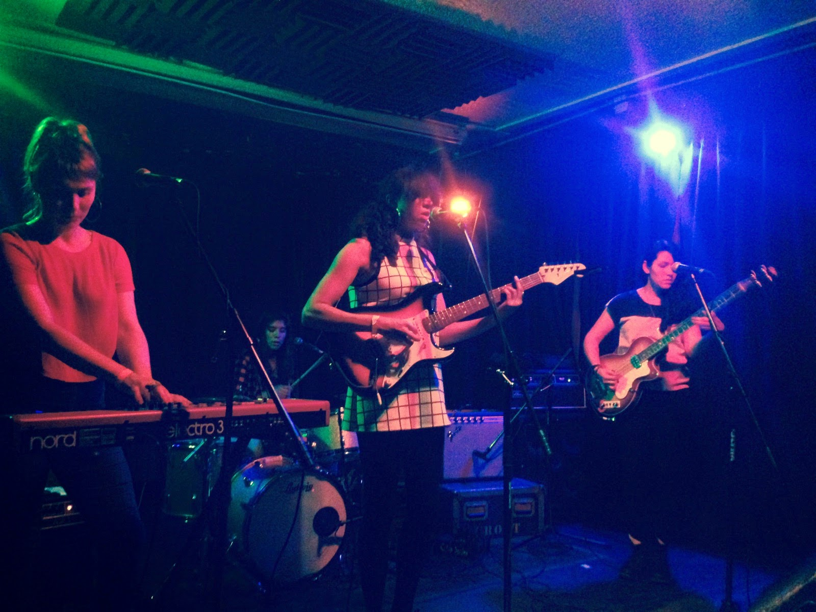 (left to right) Alice Sandahl, Marian Li Pino, Shana Cleveland, Lena Simon